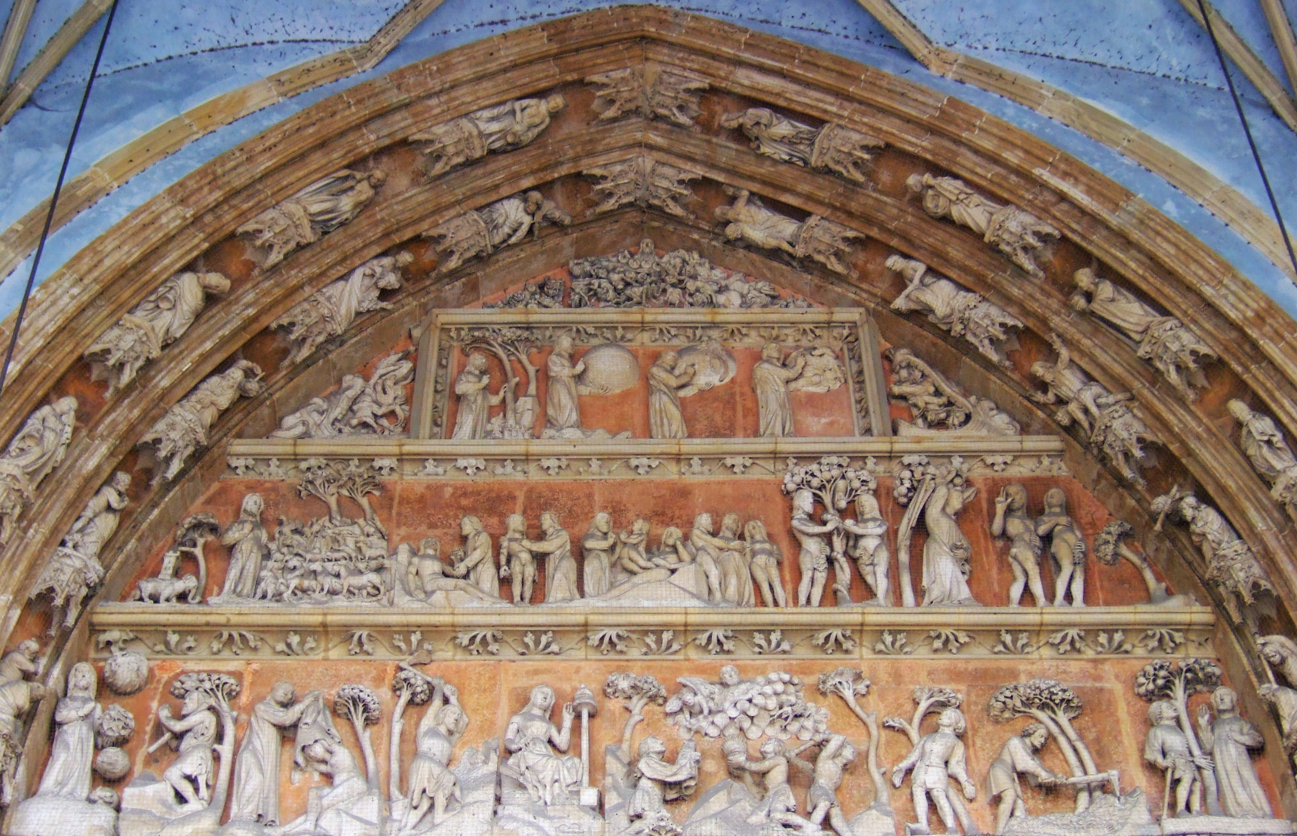 Tympanon "Ulmer Münster" of Ulm/Germany, Origin relief above the main portal